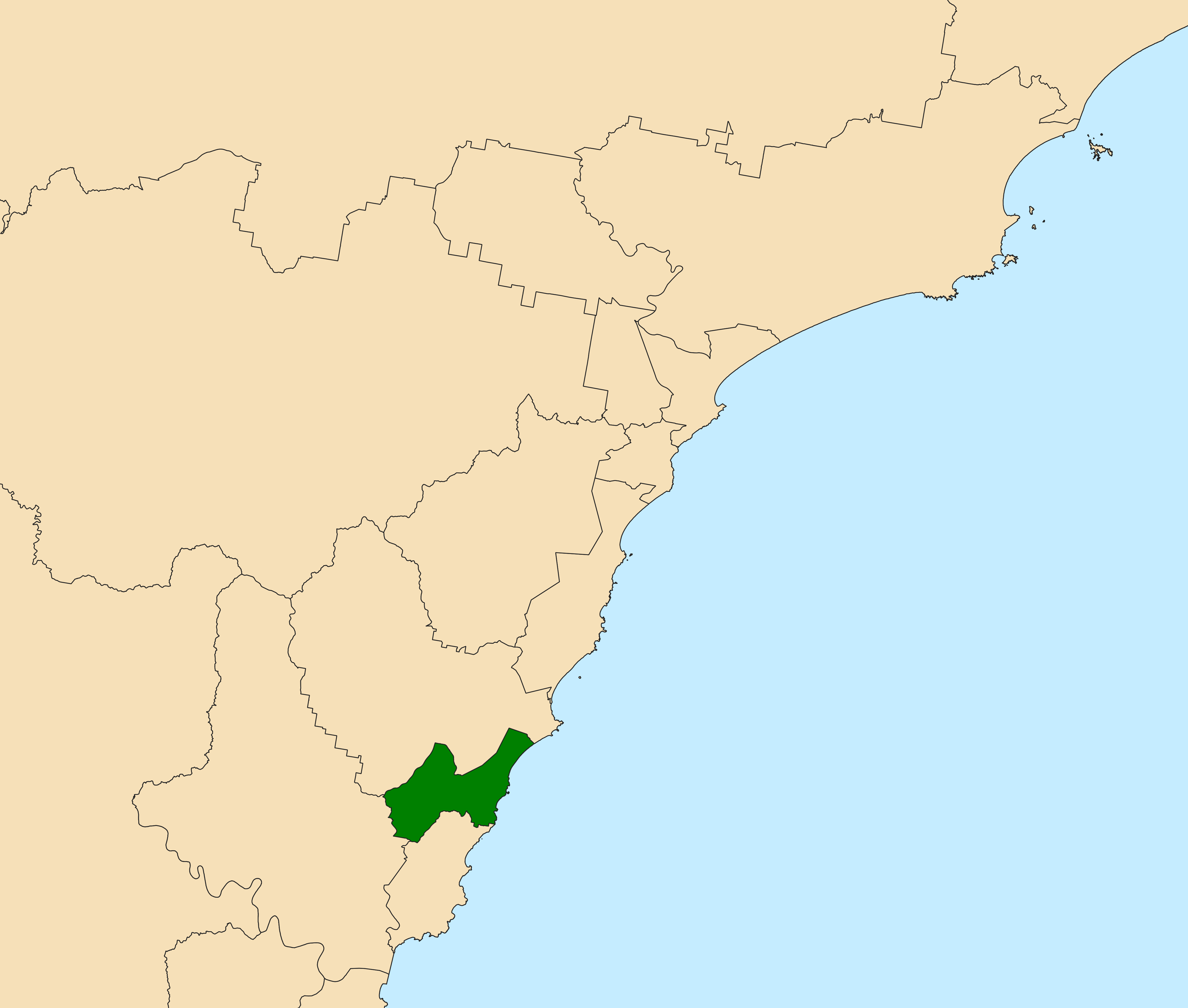 Location of the state electoral district of The Entrance (dark green) in the Central Coast region of New South Wales, Australia as of the 2019 New South Wales state election. Incorporates or developed using Administrative Boundaries ©PSMA Australia Limited licensed by the Commonwealth of Australia under Creative Commons Attribution 4.0 International licence (CC BY 4.0).